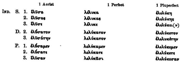 Ancient Greek Verbs: Conjugation of Aorist, Perfect, and Pluperfect of 'luo'